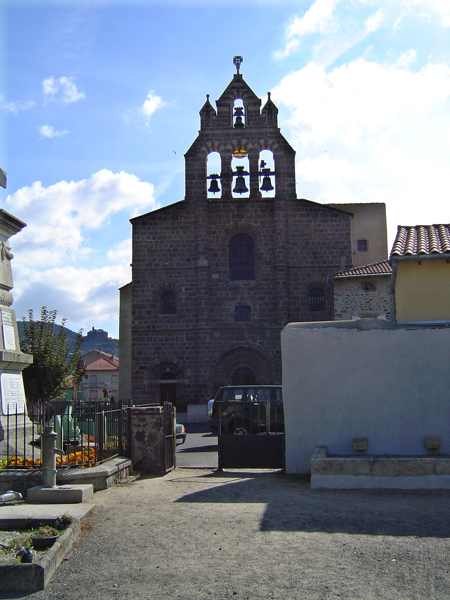 Coubon (Haute-Loire, Fr), church with bell gable.